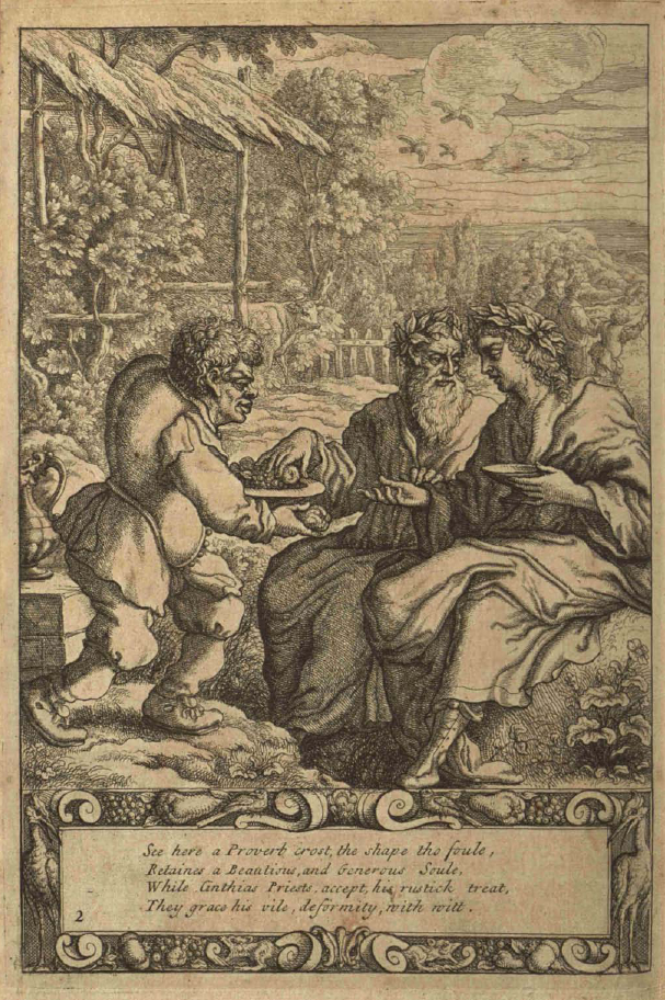 The slave Aesop serving two priests, by Francis Barlow.